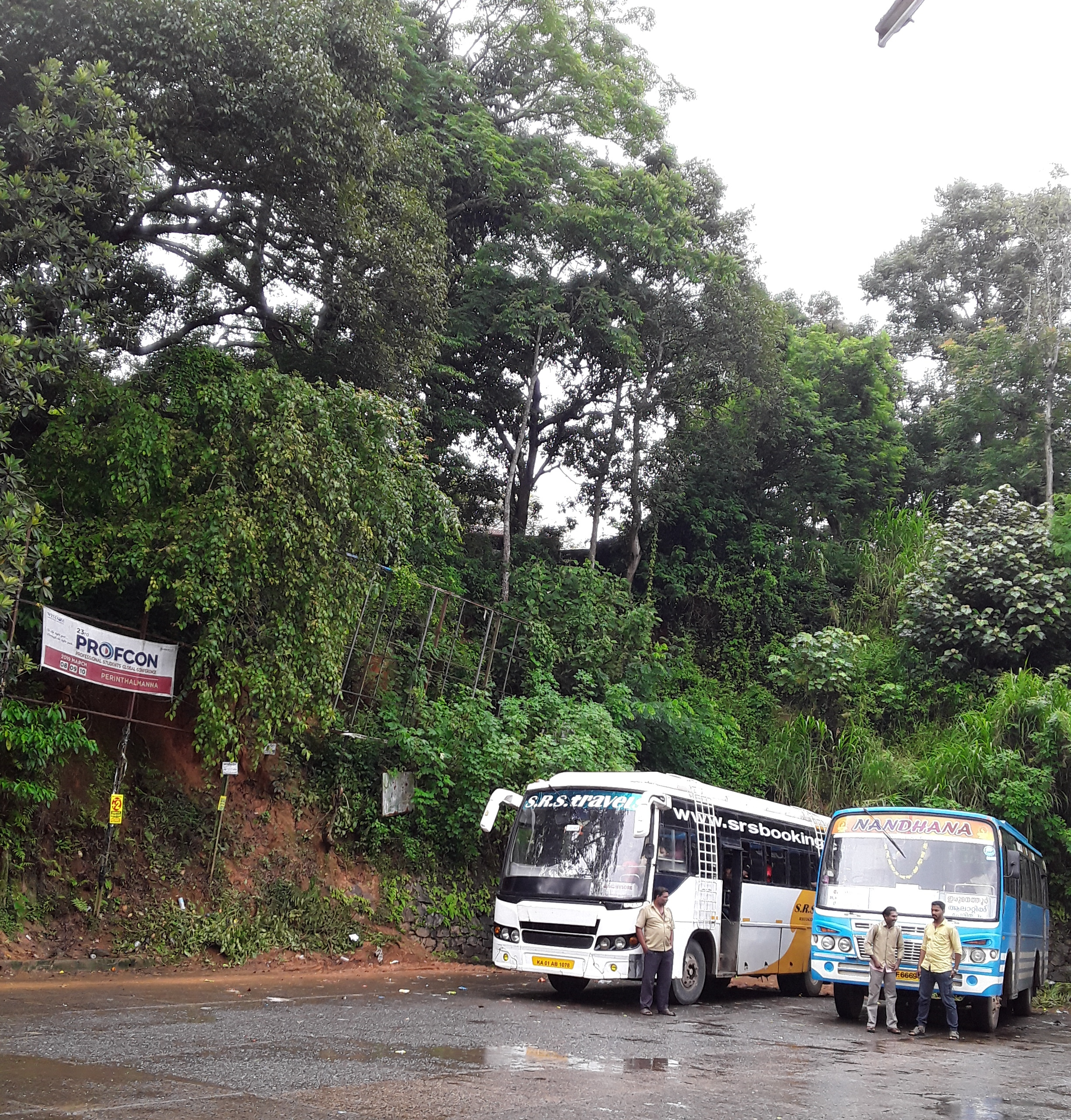 Wayanad district, Kerala state, India.